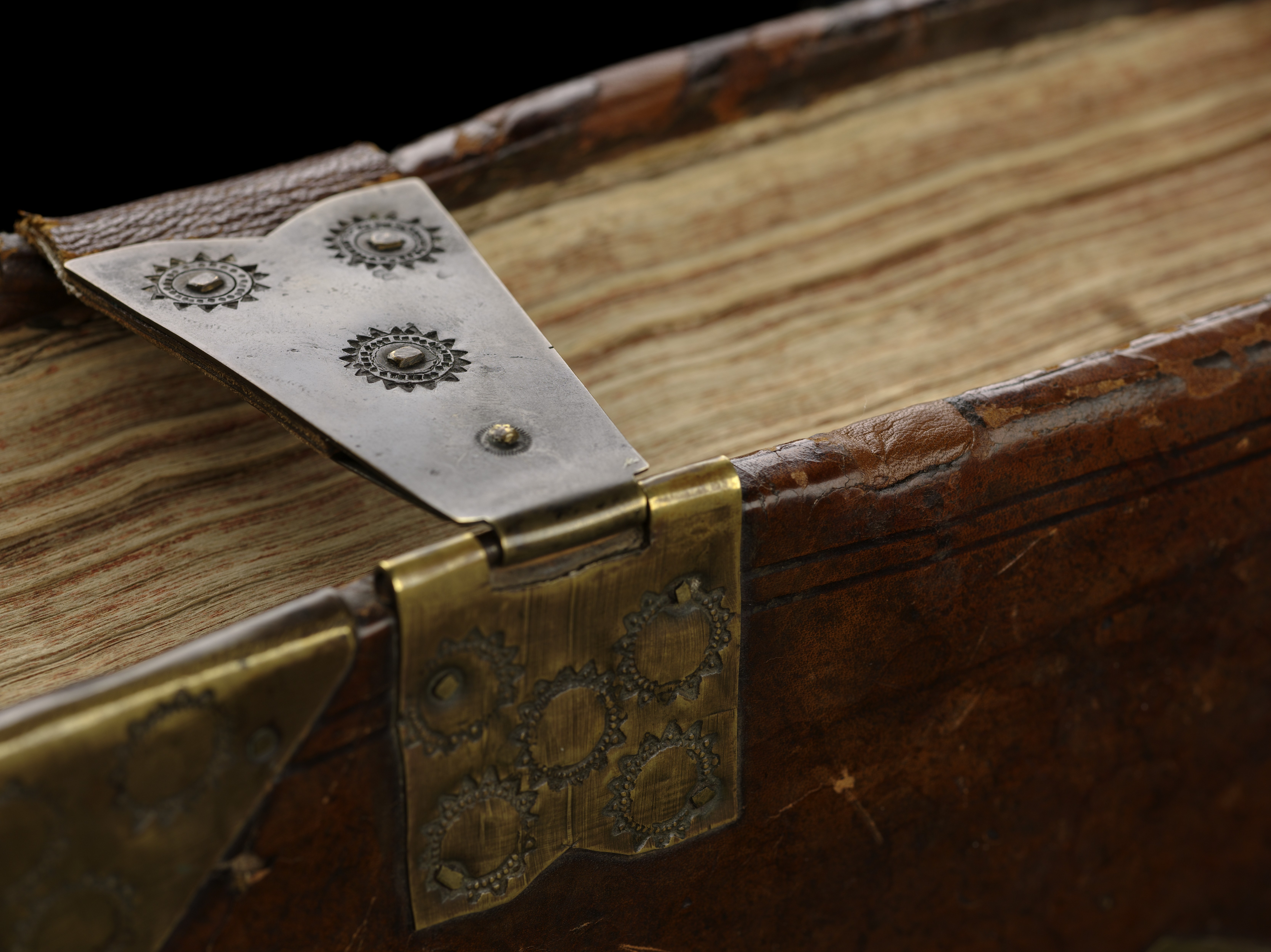 External fastening of 'De historia stirpivm commentarii insignes ... ' Rare Books Keywords: Botany; Plants, Medicinal